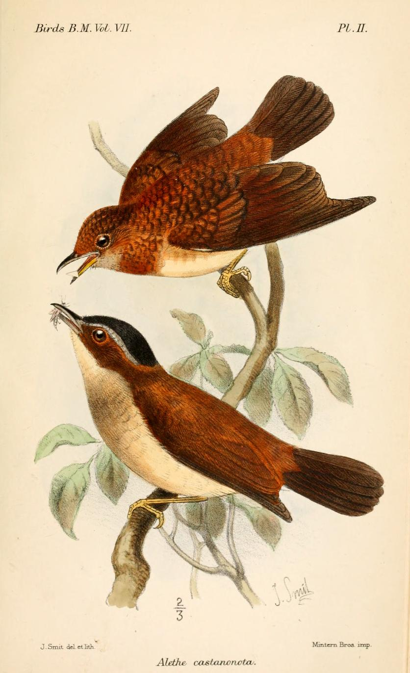 Alethe castanonota = Pseudalethe poliocephala (Brown-chested Alethe)